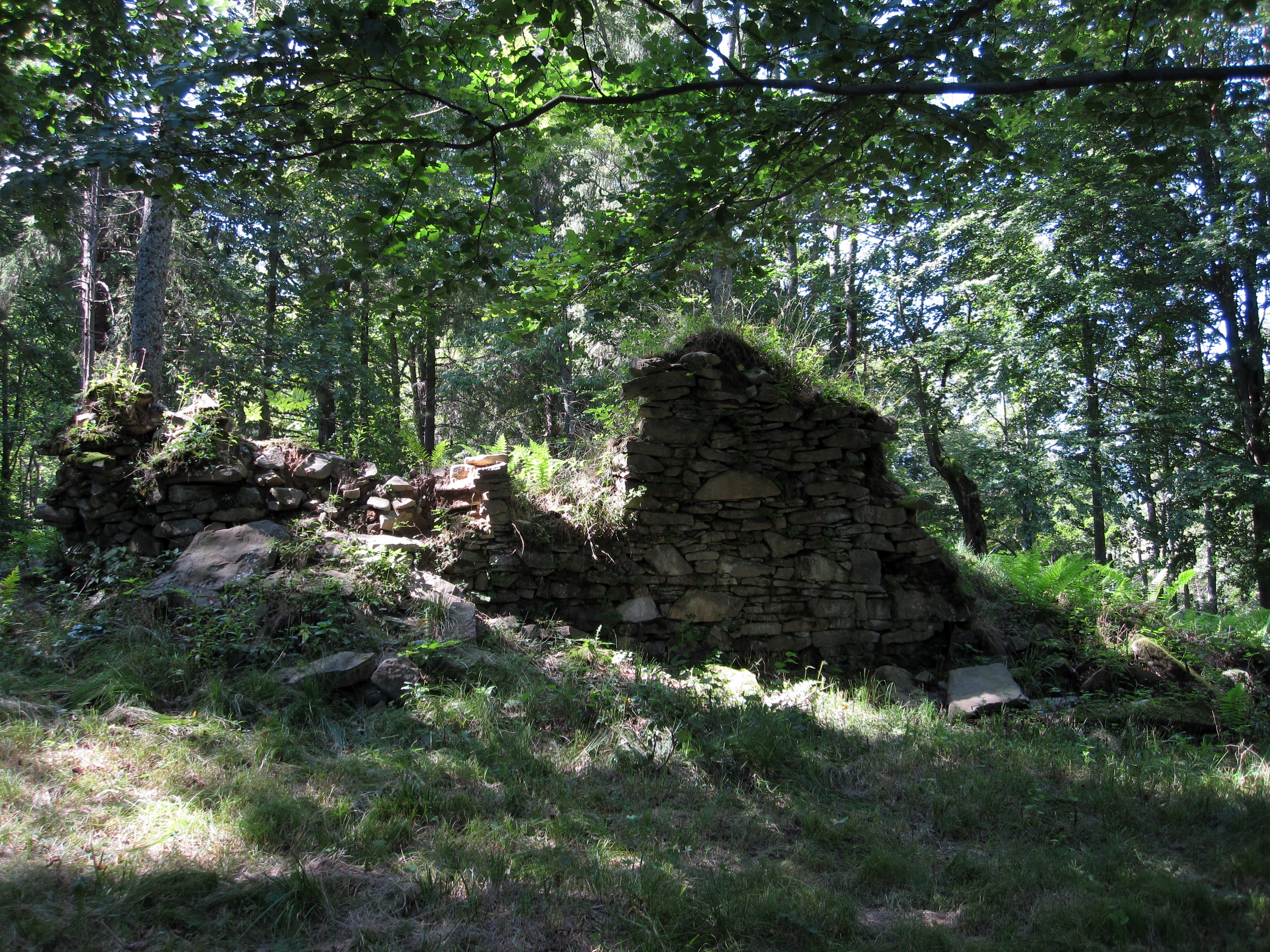 Remains of the cemetery and st. Demetrius Orthodox Church in Caryńskie